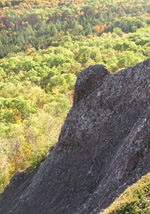 Klipfel Memorial Nature Preserve, seen from Brockway Mountain — Michigan.